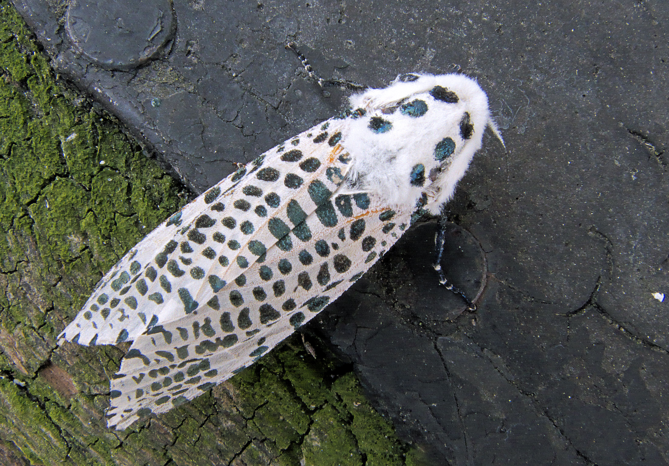 Zeuzera pyrina female